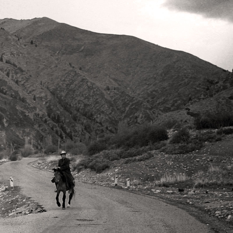 Kyrgyzstan